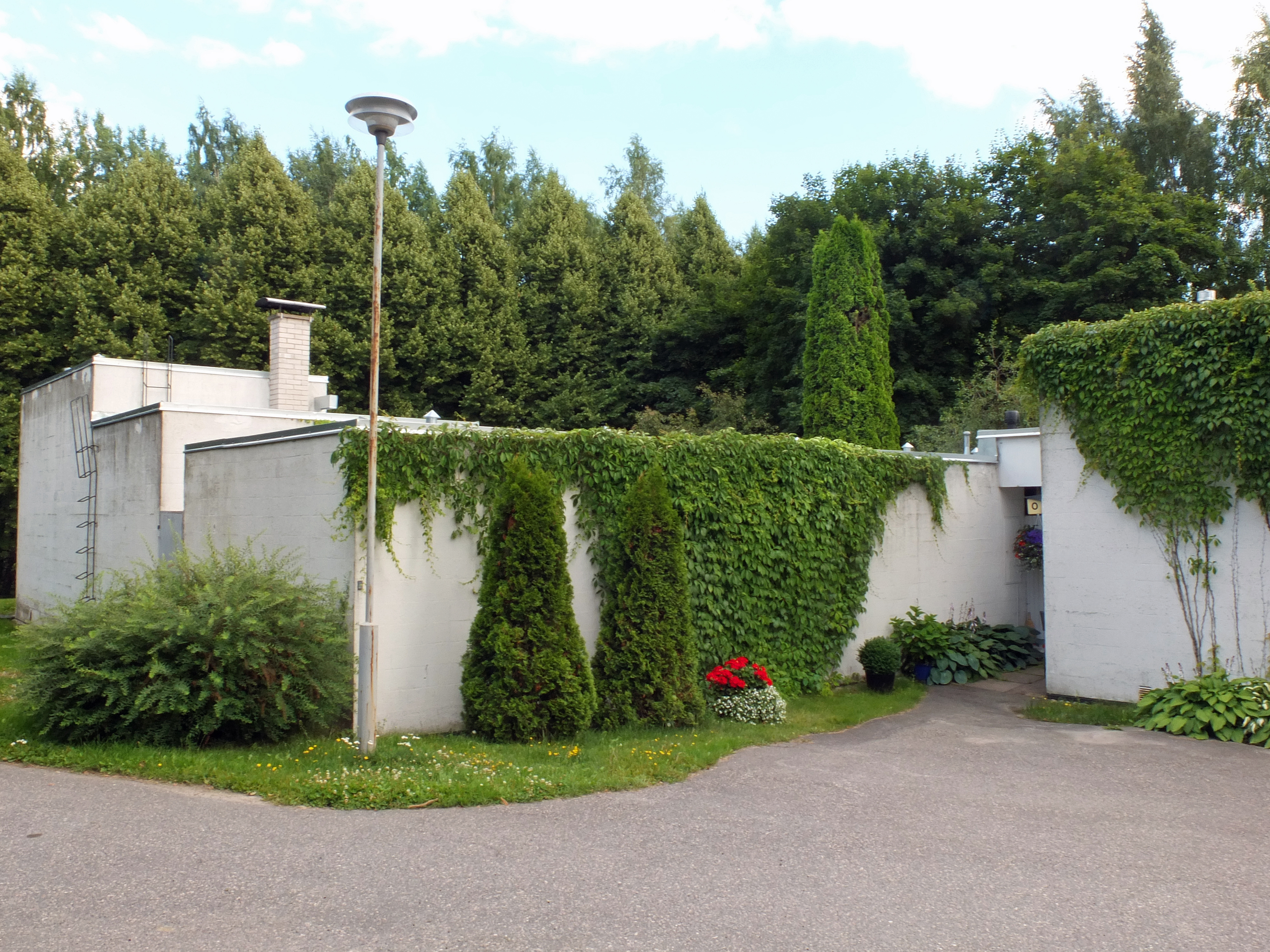 Atrium-style residental buildings in Hakalehto, Espoo, Finland, summer 2013. Architect Pentti Ahola, early 1960s.